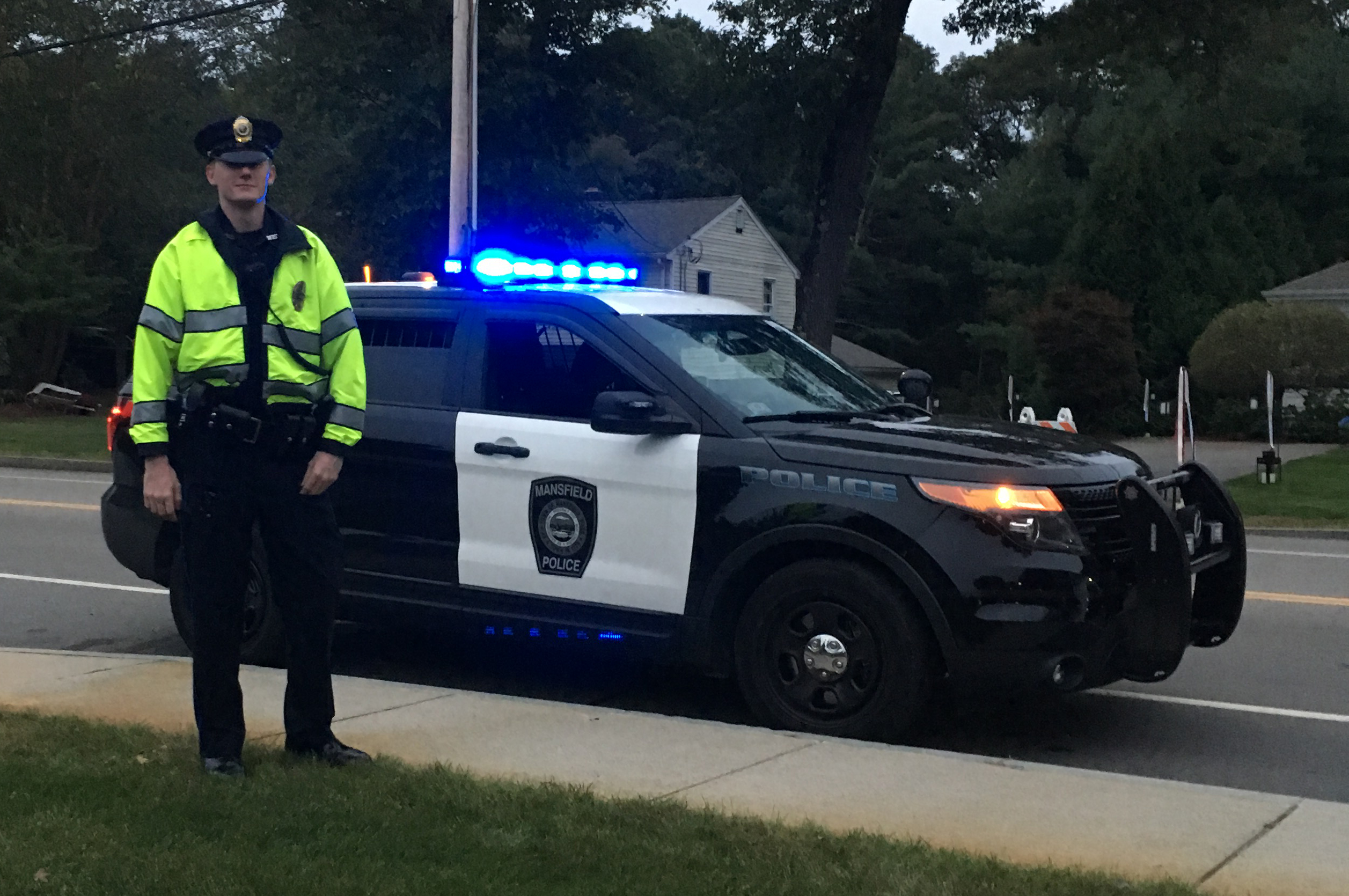 Mansfield Massachusetts Police Officer Brendan Fayles providing traffic control for an event.